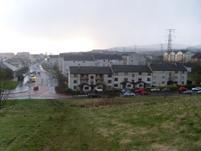 Faifley from Douglas Muir climb Looking to Faifley Road and Douglas Muir Road.